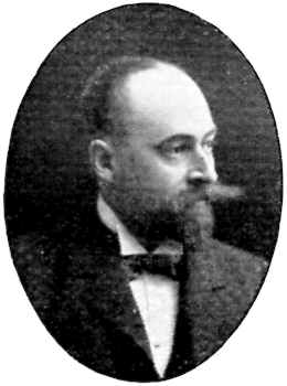 Image scanned from the book "Svenskt Porträttgalleri XX - Arkitekter, Bildhuggare, Målare m.fl. " ("Swedish Portrait Gallery XX - Architects, Sculptors, Painters, ") published 1901